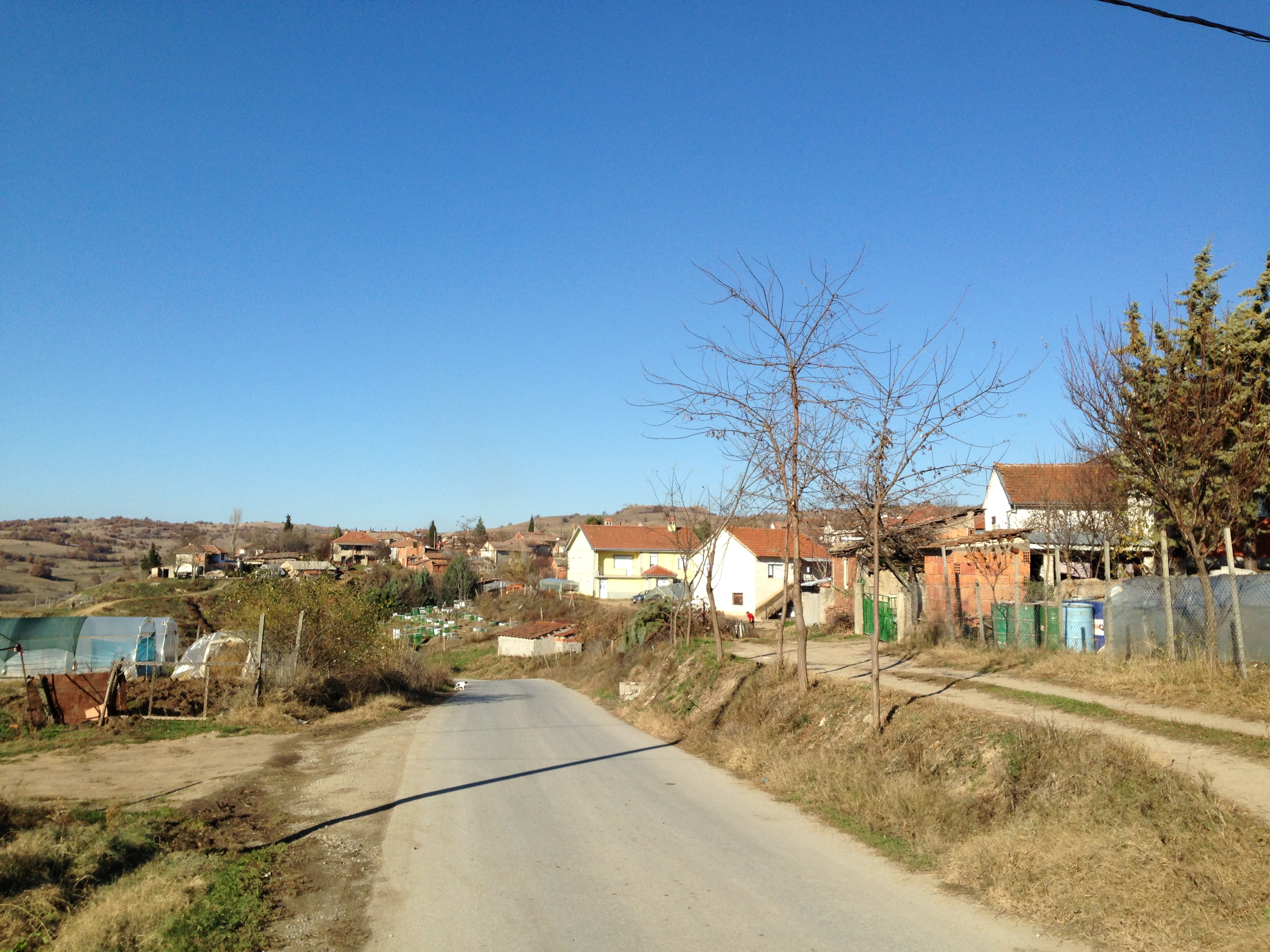 village of Mamutčevo, near Veles, Macedonia